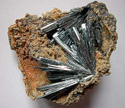 Antimonitkristall (Foto von Ulfinger, Public Domain)